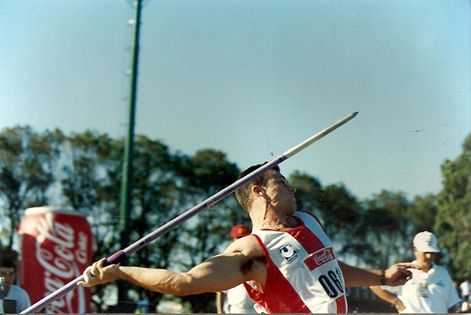 lanzamiento de jabalina